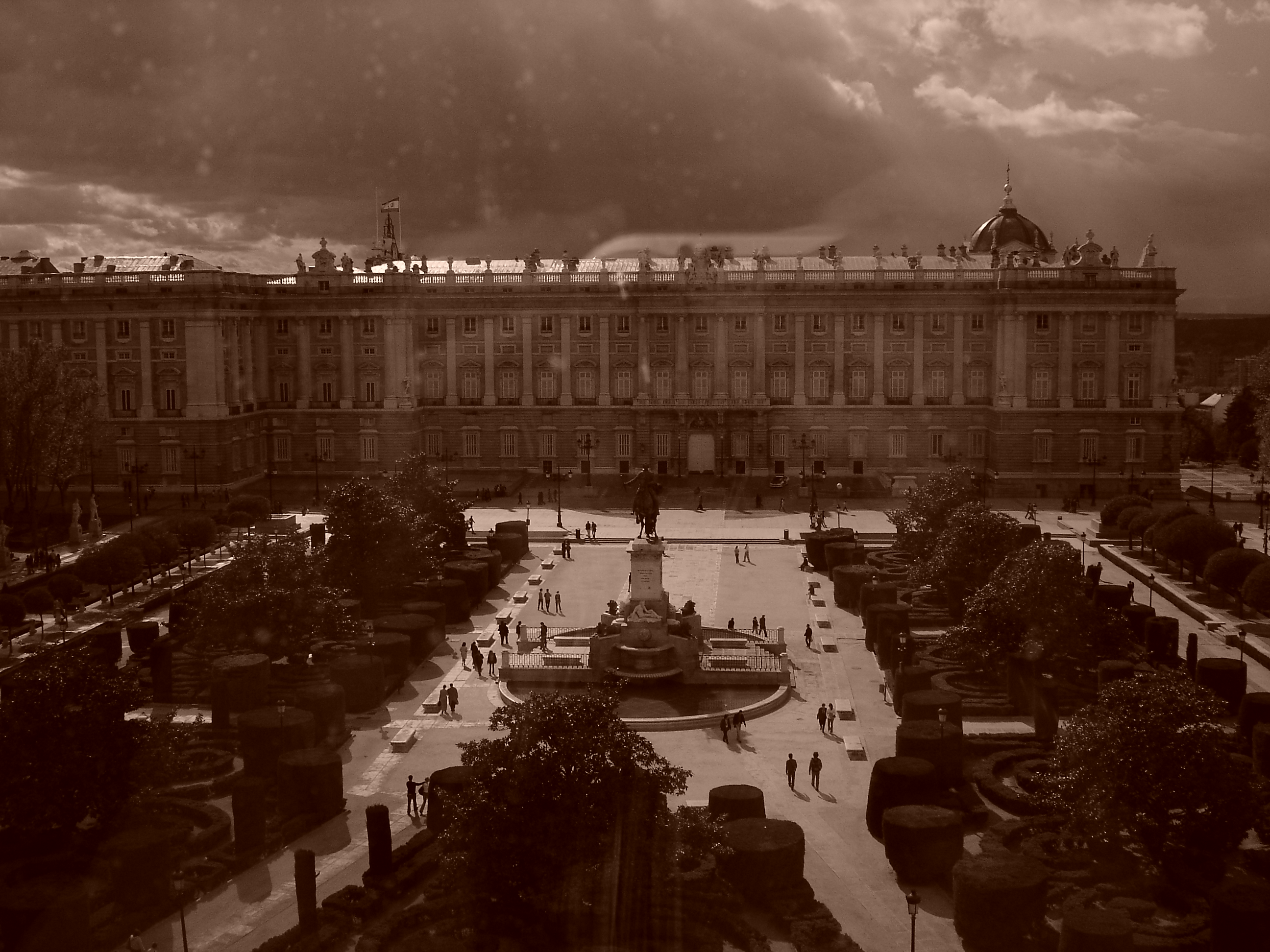 View of the Plaza de Oriente (square) in Madrid (Spain) from the Teatro Real (opera house and concert hall). In the background, the Royal Palace.